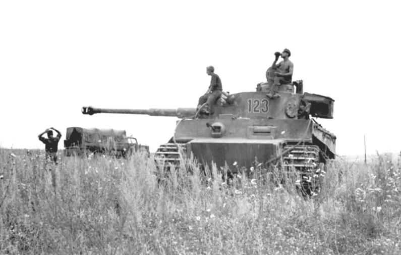 Information added by Wikimedia users.Mid 1943, 1st Company, sPzAbt.503